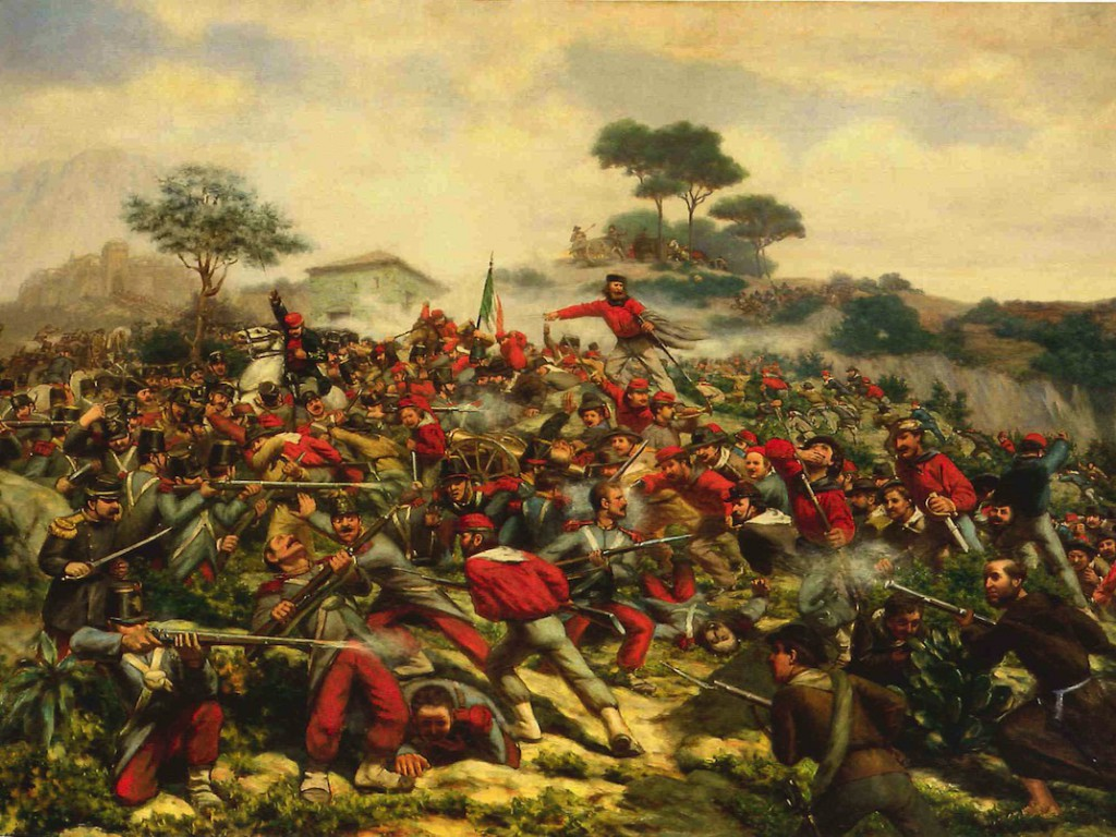 Battle of Calatafimi, painting from 1860 according to